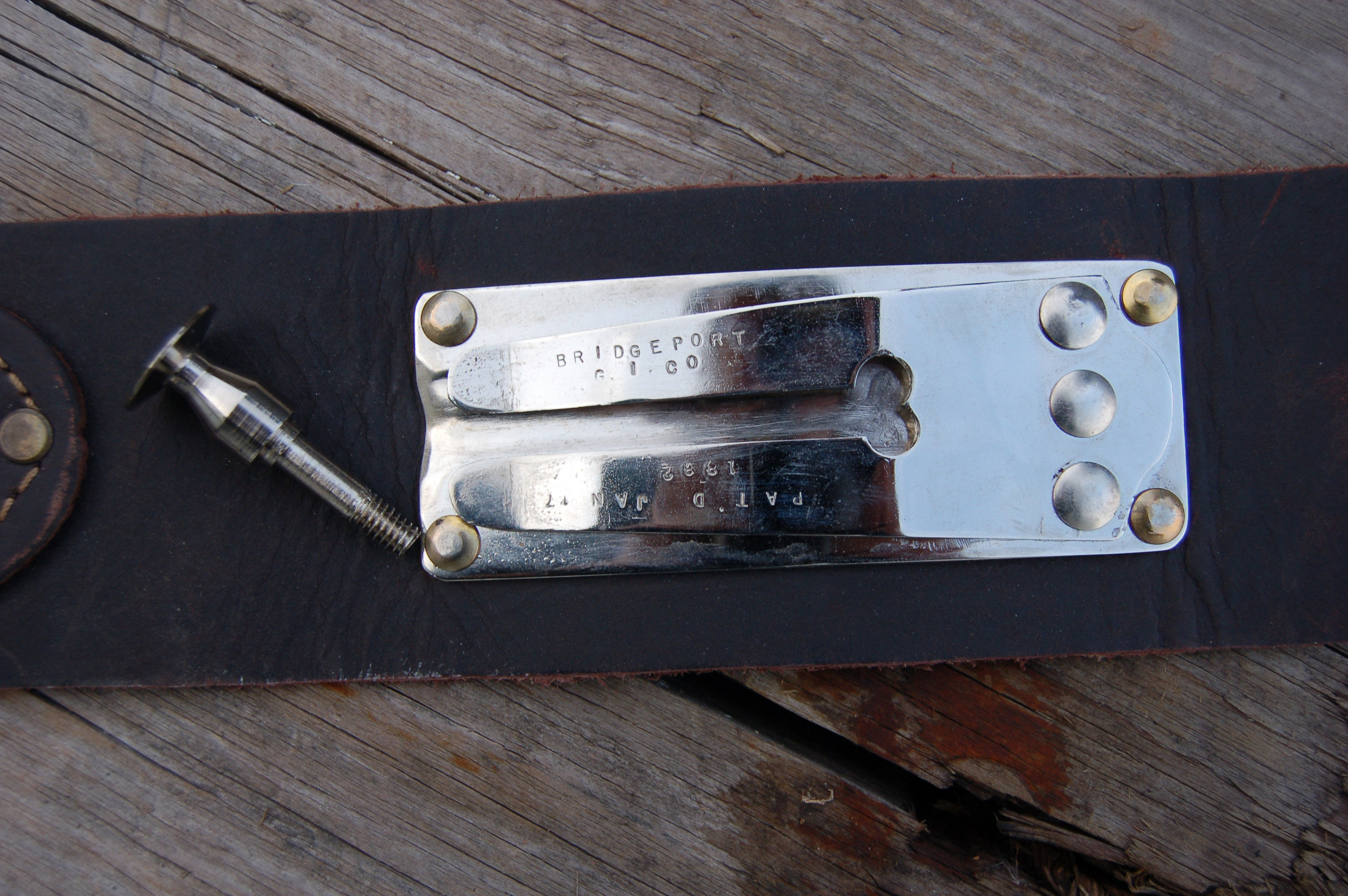 Bridgeport Rig (pistol holder) device and screw